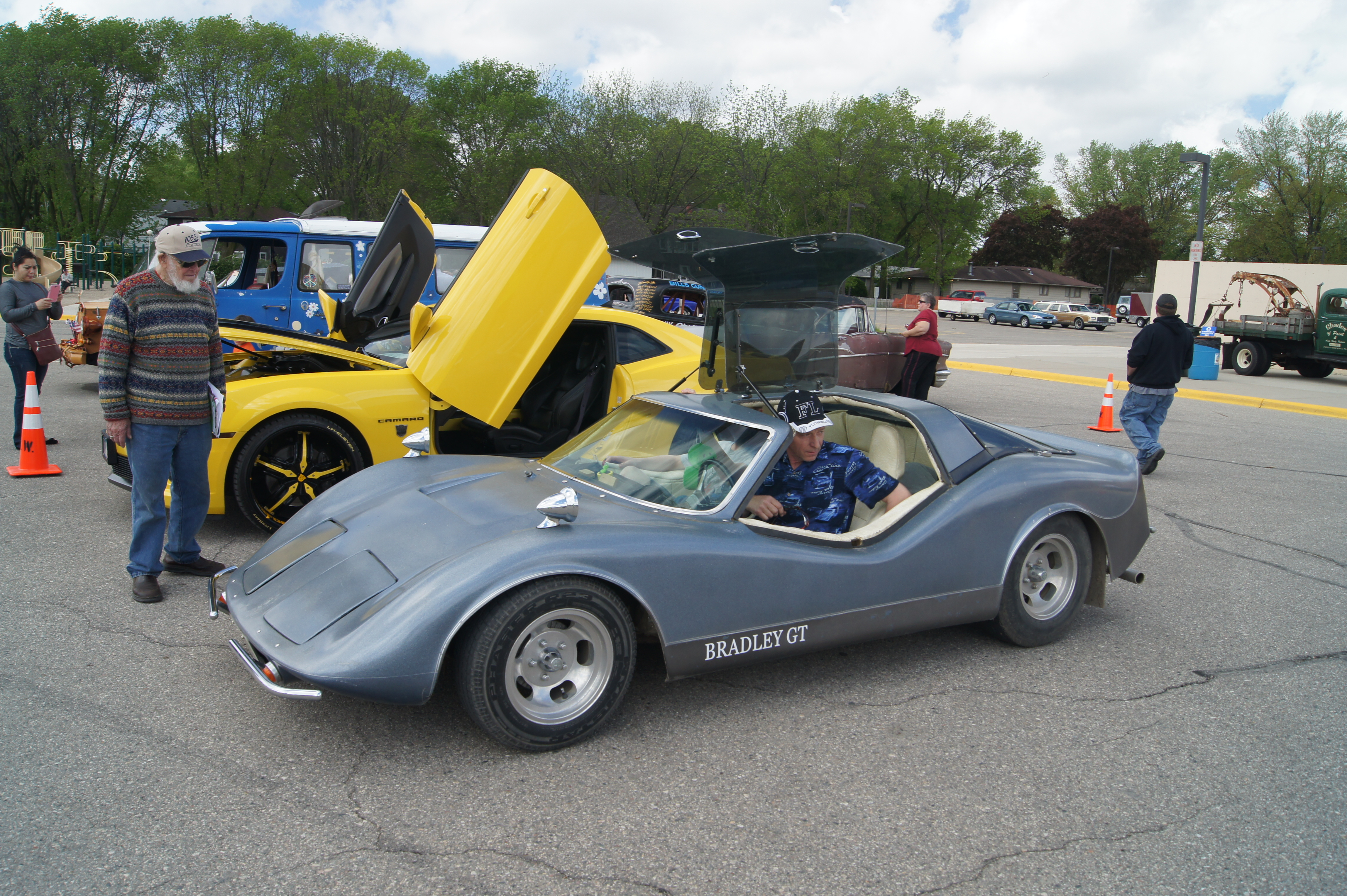 Blue Bradley GT kit car